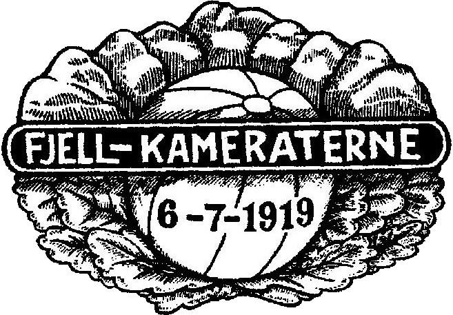 The logo of IL Fjell-Kameraterne from Bergen, Norway.